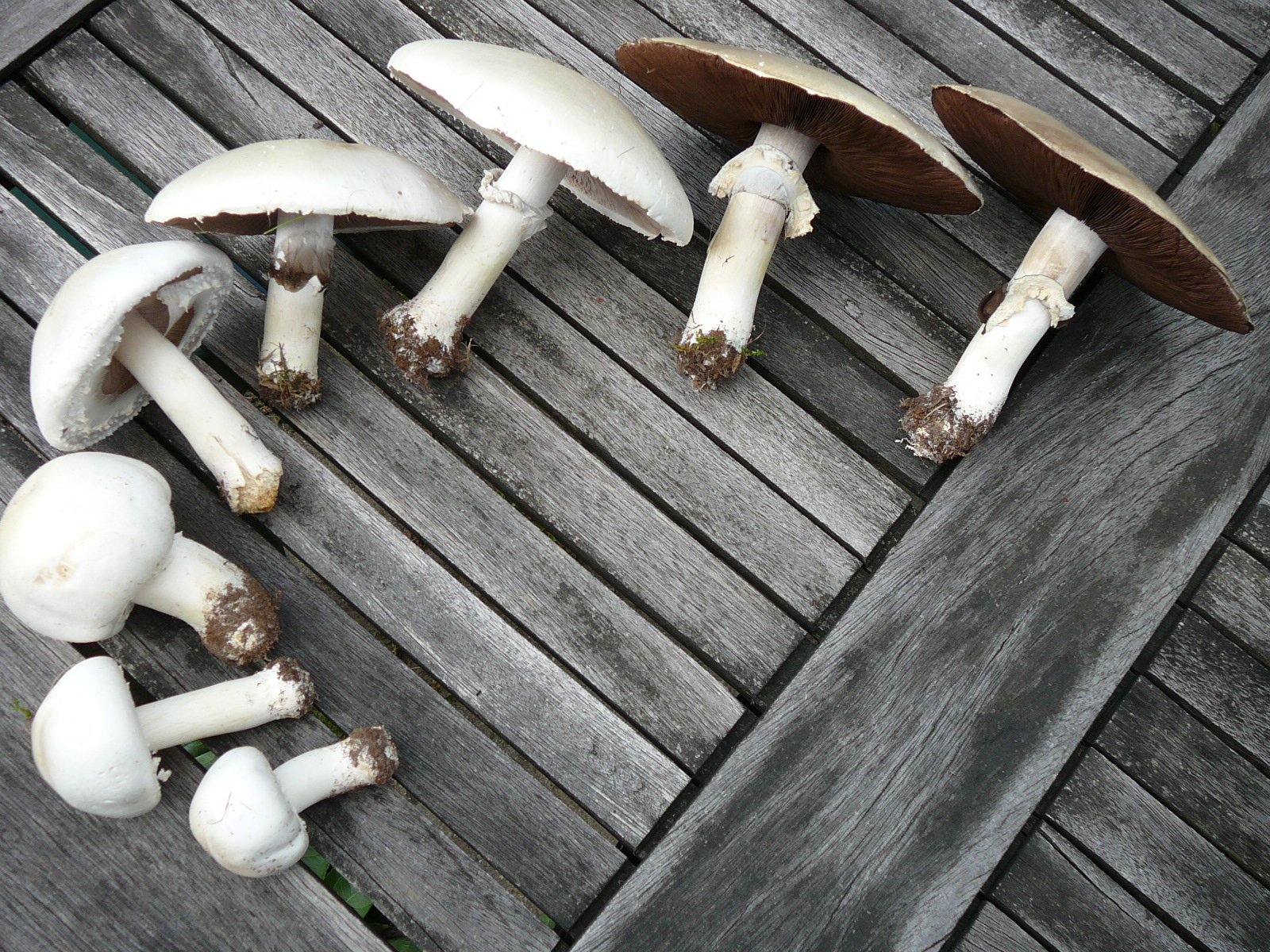 Agaricus arvensis, young to mature. Stuttgart, Germany. Found in August on a lawn, around a Maple tree. Arround 5 to 15cm of diameter. When cut: smell of anise and cap stay white. Very slow yellowish oxidation of the foot. Ring but no volva. Pinkish lamellas becoming brown as it gets old.